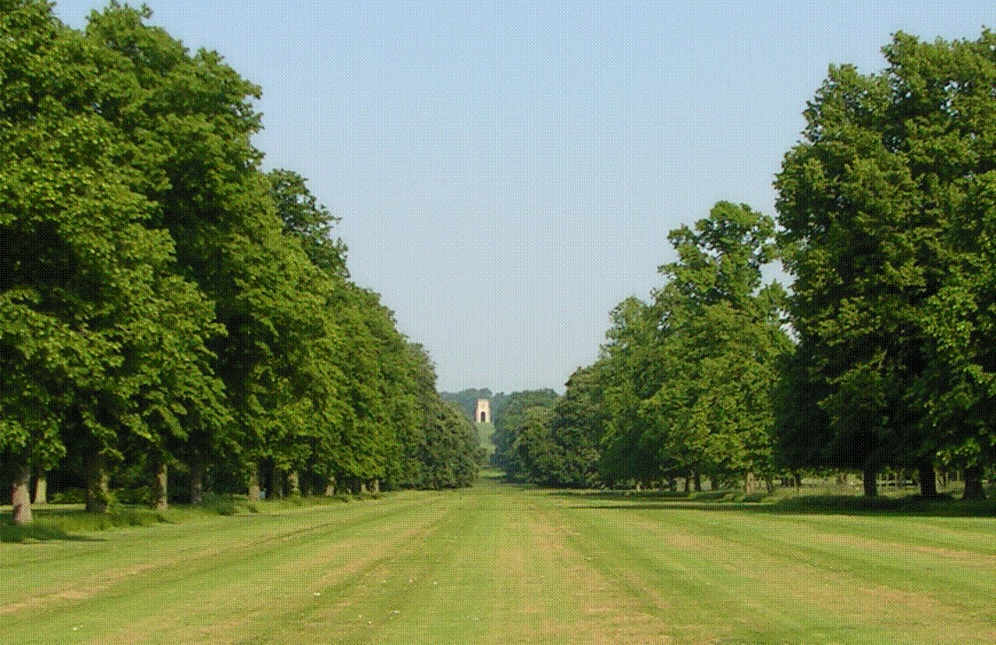 Belton House - the Belvedere